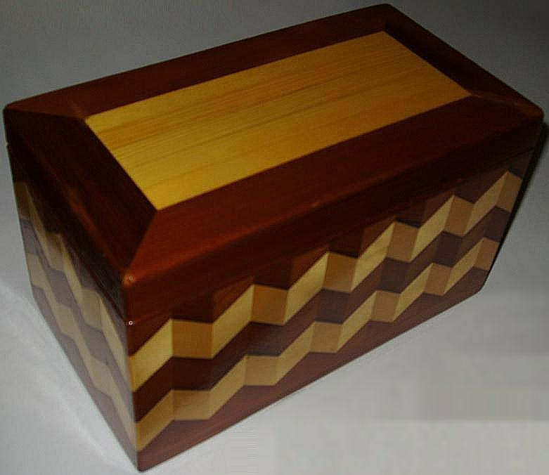 I photographed this wooden box myself on July 19 2006. It was made by Tom Tanaka who has agreed to grant full rights to use the picture on the web. Its measurements are 6 1/2" tall, 6" wide and 11" long. Its two shades of wood were induced with wood stain. It is intended to be used on the box or Woodworking articles.--Dark Tichondrias 10:35, 19 July 2006 (UTC)